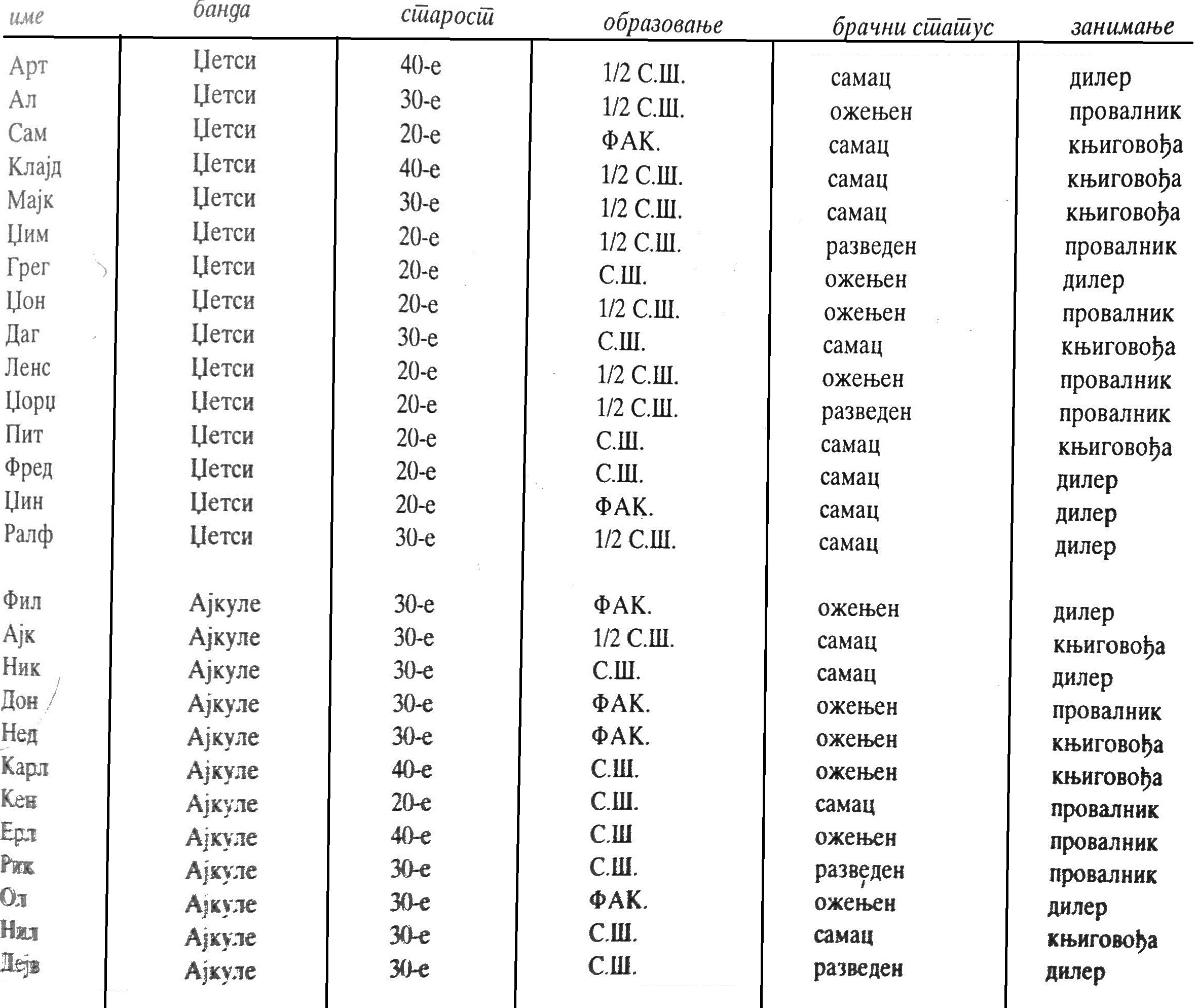 tabela konekcionizam